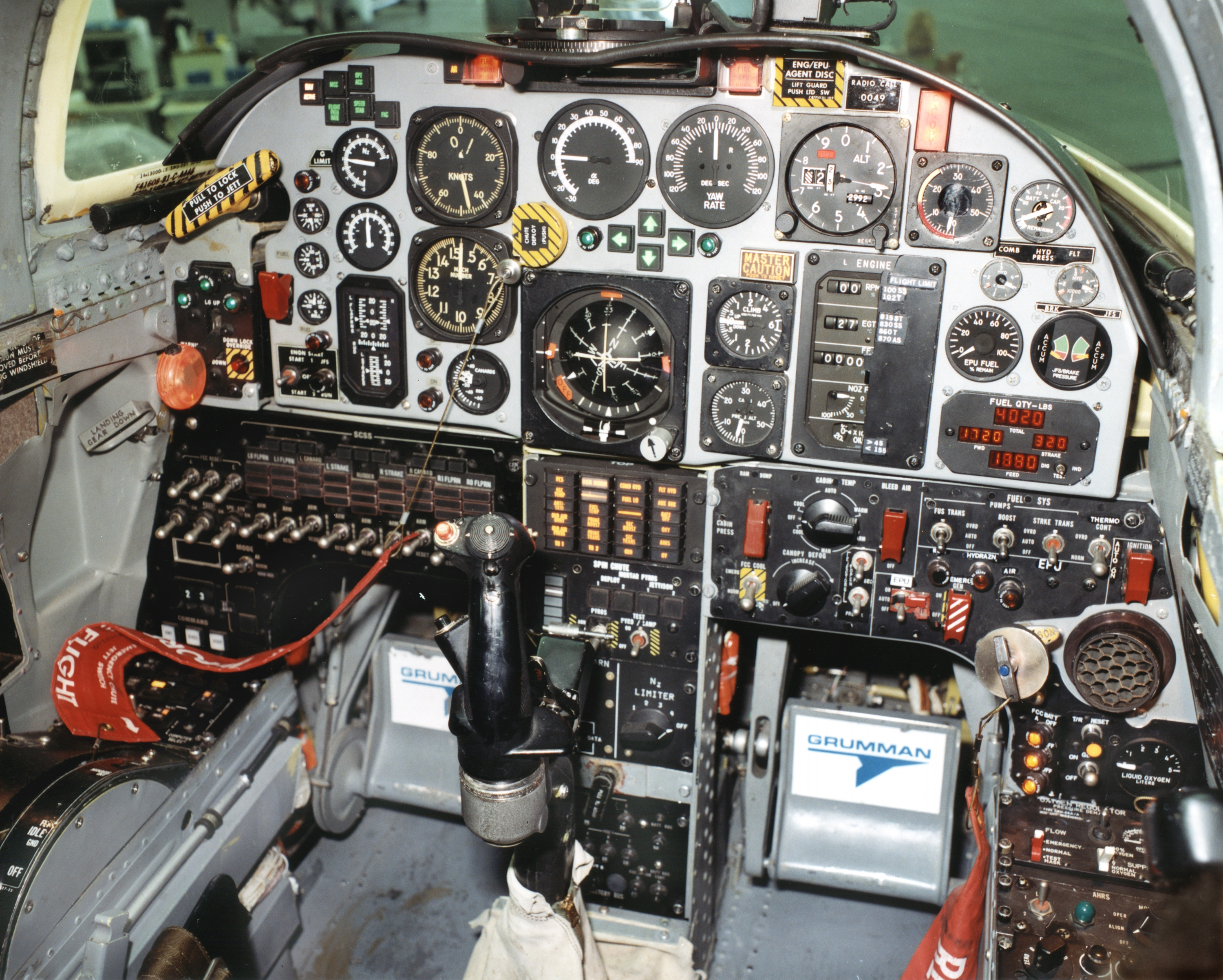 This 1989 photo shows the cockpit and instrument panel of the X-29 technology demonstrator aircraft. The X-29 was built by the Grumman Corporation and incorporated a unique forward-swept wing design.